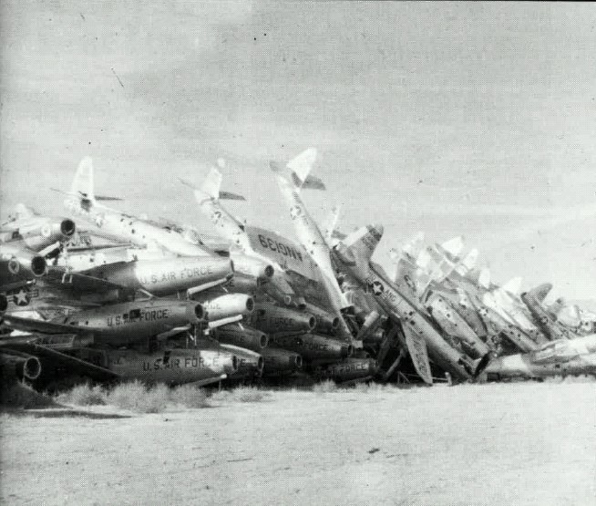 Numerous former U.S. Air Force Republic F-84 Thunderjet fighter-bombers being scrapped at the Military Aircraft Storage and Disposition Center (MASDC) at Tucson, Arizona (USA). These F-84s were retired in the 1950s.